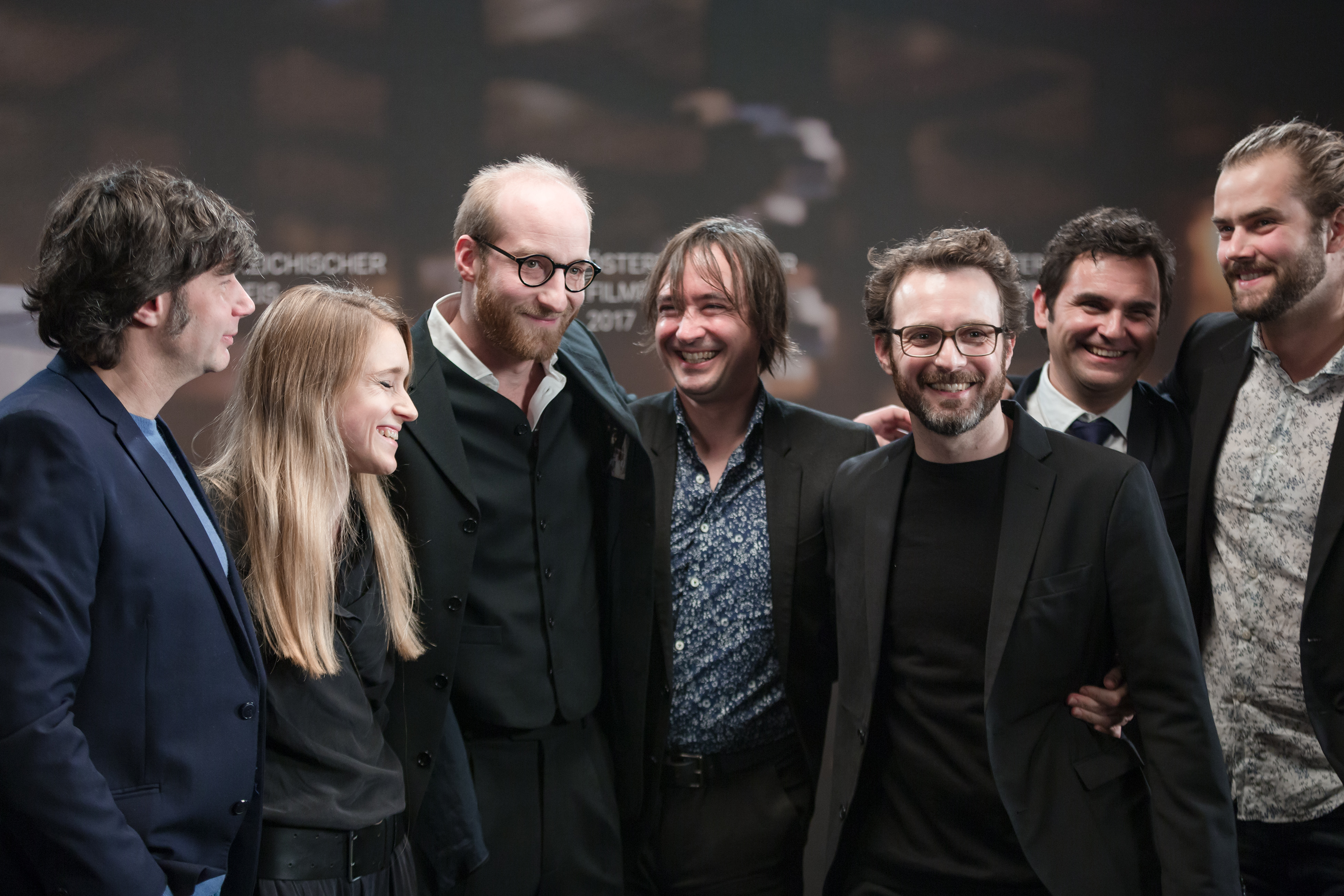 A part of the cast and crew of Tomcat, ltr.: Antonin Svoboda (producer), Joana Scrinzi (editor), Lukas Turtur (actor), Klaus Händl (director, writer) and Gerald Kerkletz (cinematographer) at the Austrian Film Awards 2017 (Rathaus, Vienna,Austria).